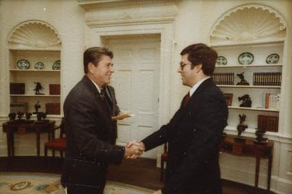 President Ronald Reagan and Richard Allen (5-6) Photo Opportunity with United States Ambassador President Ronald Reagan (7-11) Photo Opportunity with United States Ambassador President Ronald Reagan and Richard Allen (Not in all Photos) (12-14) Photo opportunity with United States Ambassadors President Ronald Reagan, Winifred Dolibois, Robert Dolibois, Susan Dolibois, and Richard Allen, (Not in all Photos) (15-21A) Photo opportunity with United States Ambassador to Luxembourg Winifred Dolibois President Ronald Reagan and Richard Allen (22-23) Photo opportunity with United States Ambassadors President Ronald Reagan, David Funderburk, David Funderburk Jr., Betty Funderburk, and Deana Funderburk, (Not in all Photos) (24-32) Photo opportunity with United States Ambassador Designate to Romania David Funderburk